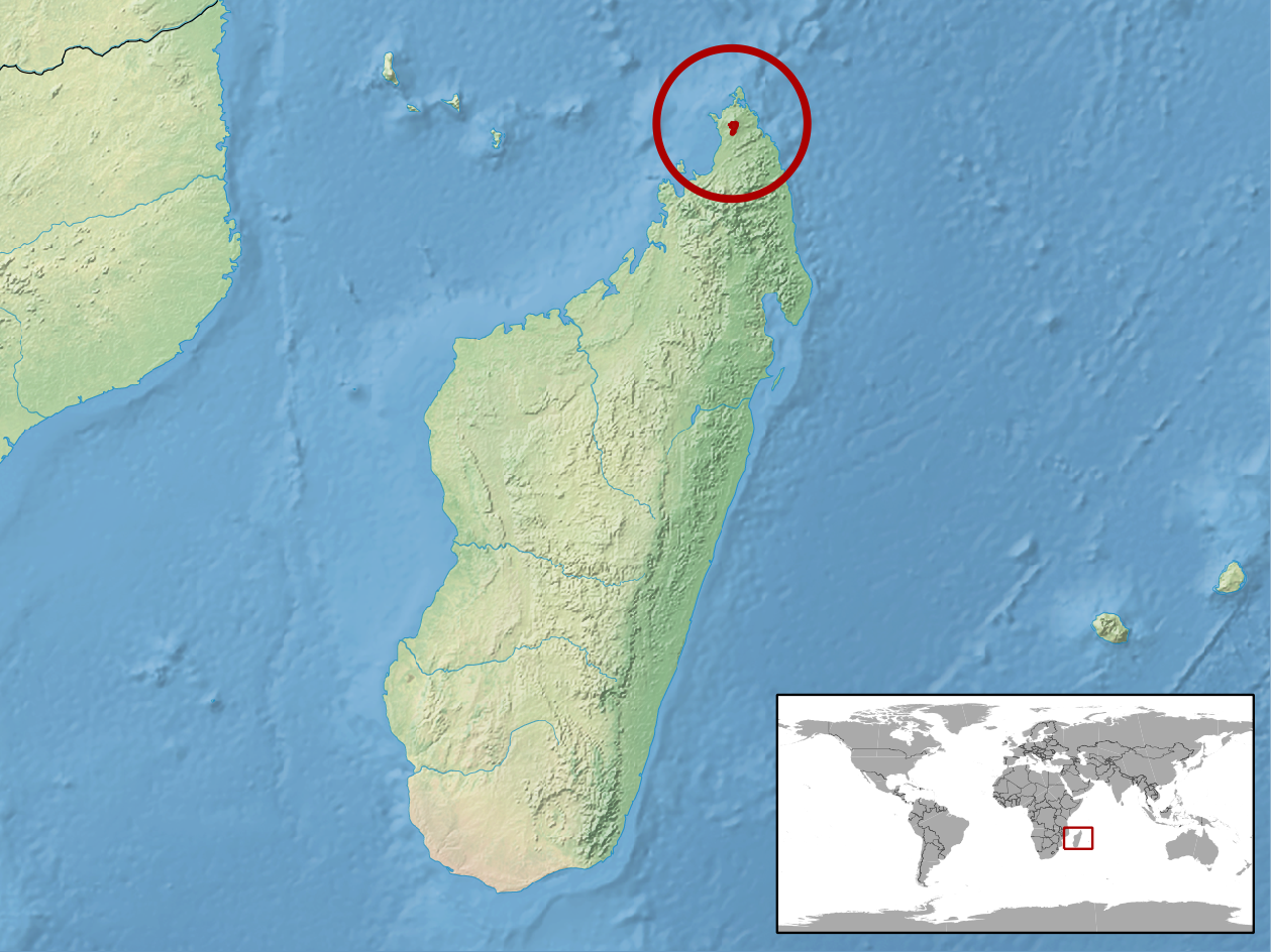 geographic distribution of Paracontias brocchii